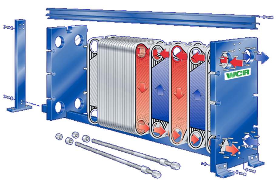 Plate heat exchanger